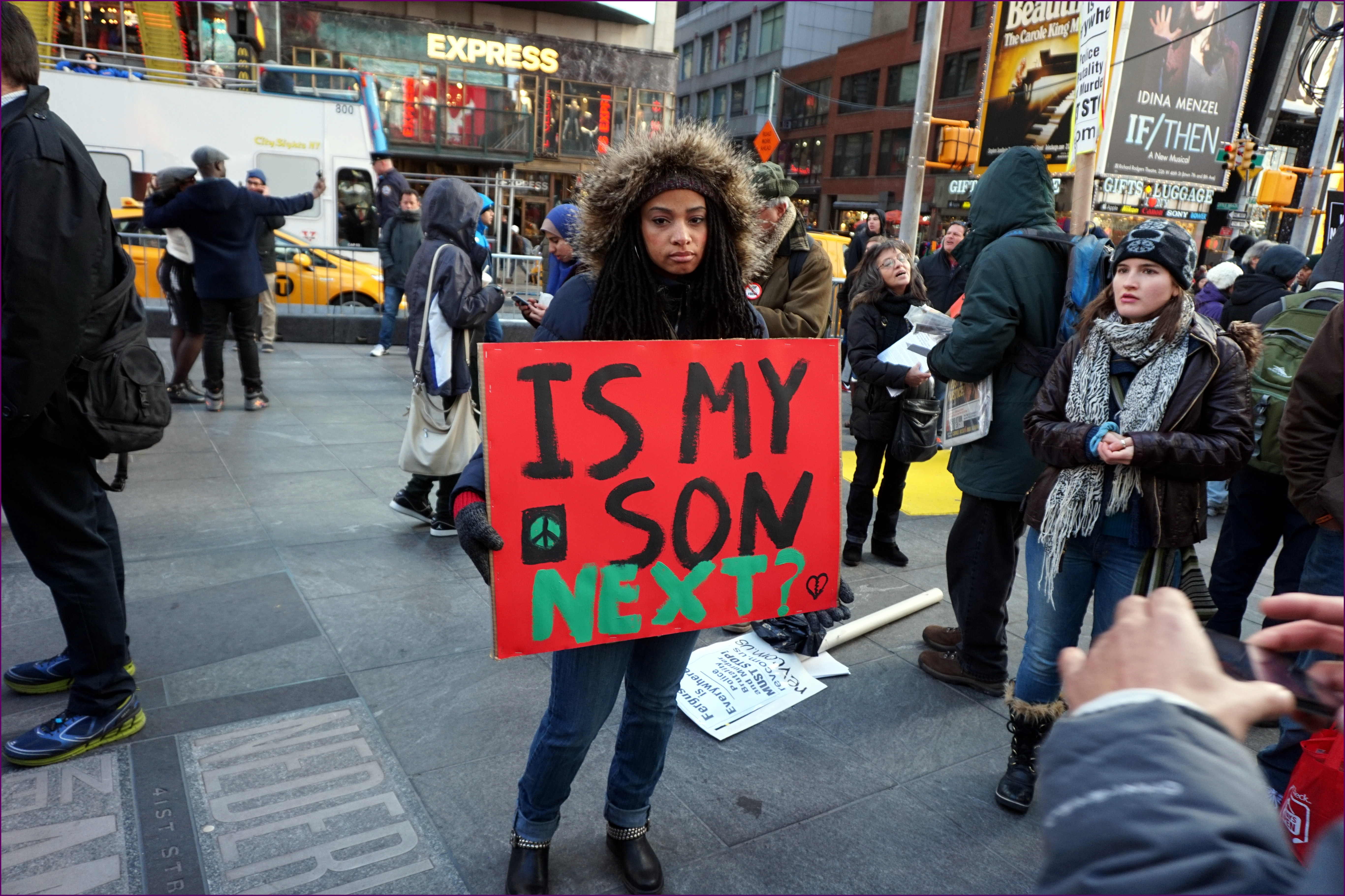 NYC action in solidarity with Ferguson. Mo, encouraging a boycott of Black Friday Consumerism.